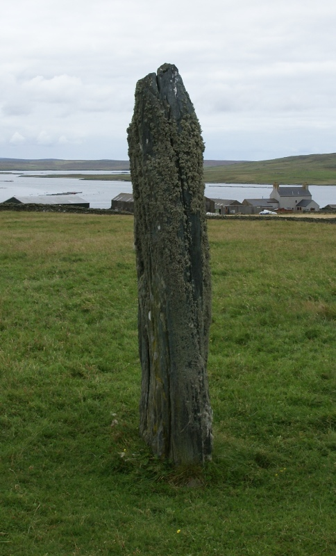 Uyea Breck Standing Stone, Uyeasound, Unst, Shetland, Scotland